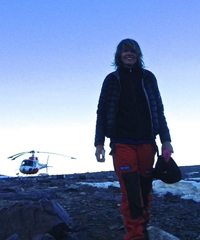 Laura Crispini 2015-16 XXXI Expedition Italian Antarctic Program